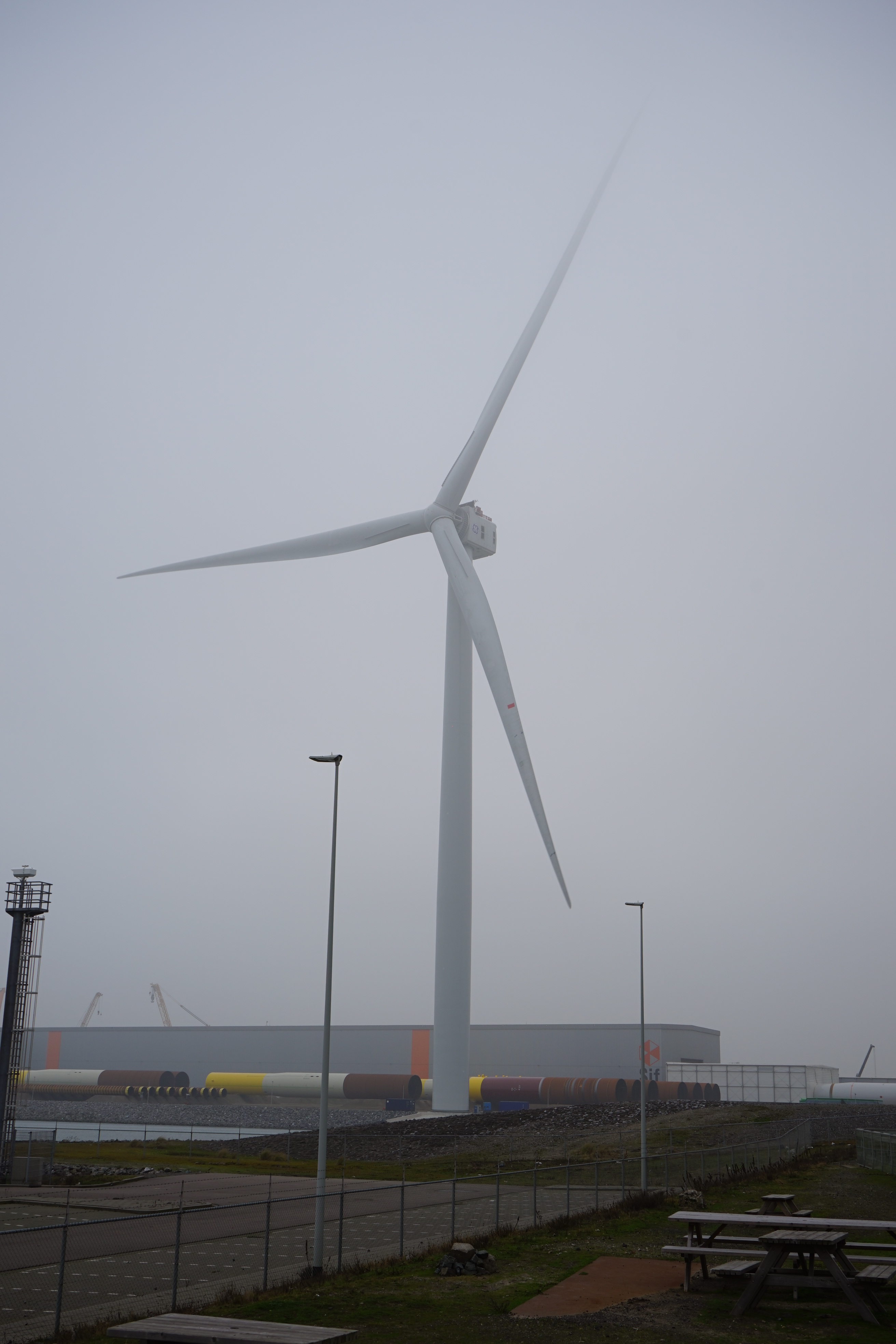 A prototype of the Haliade-X wind turbine, the most powerful and largest wind turbine in the world at the time of it's construction in 2019, located at Maasvlakte, Rotterdam, The Netherlands